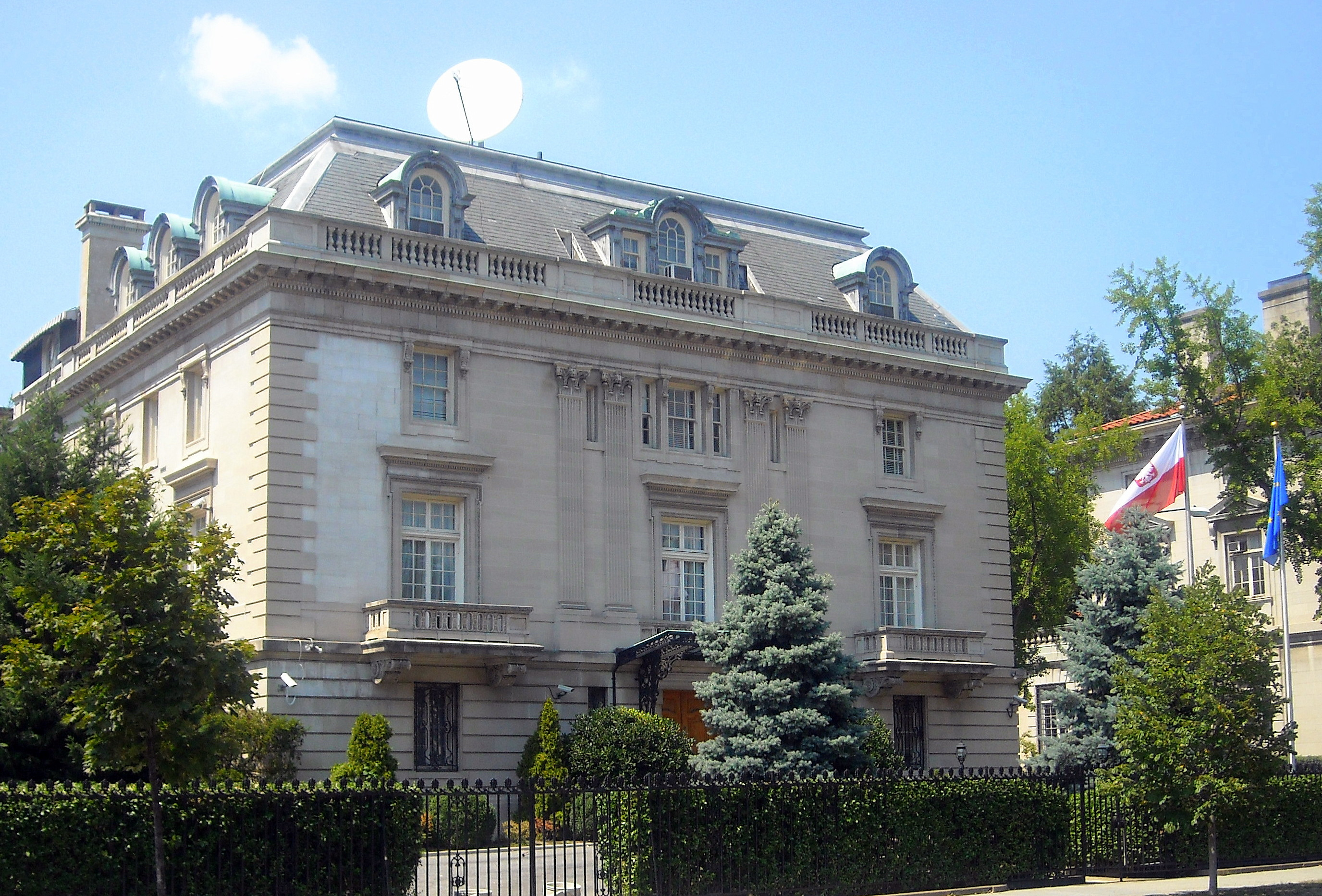 Embassy of Poland at 2640 16th Street, NW in Washington, D.C.